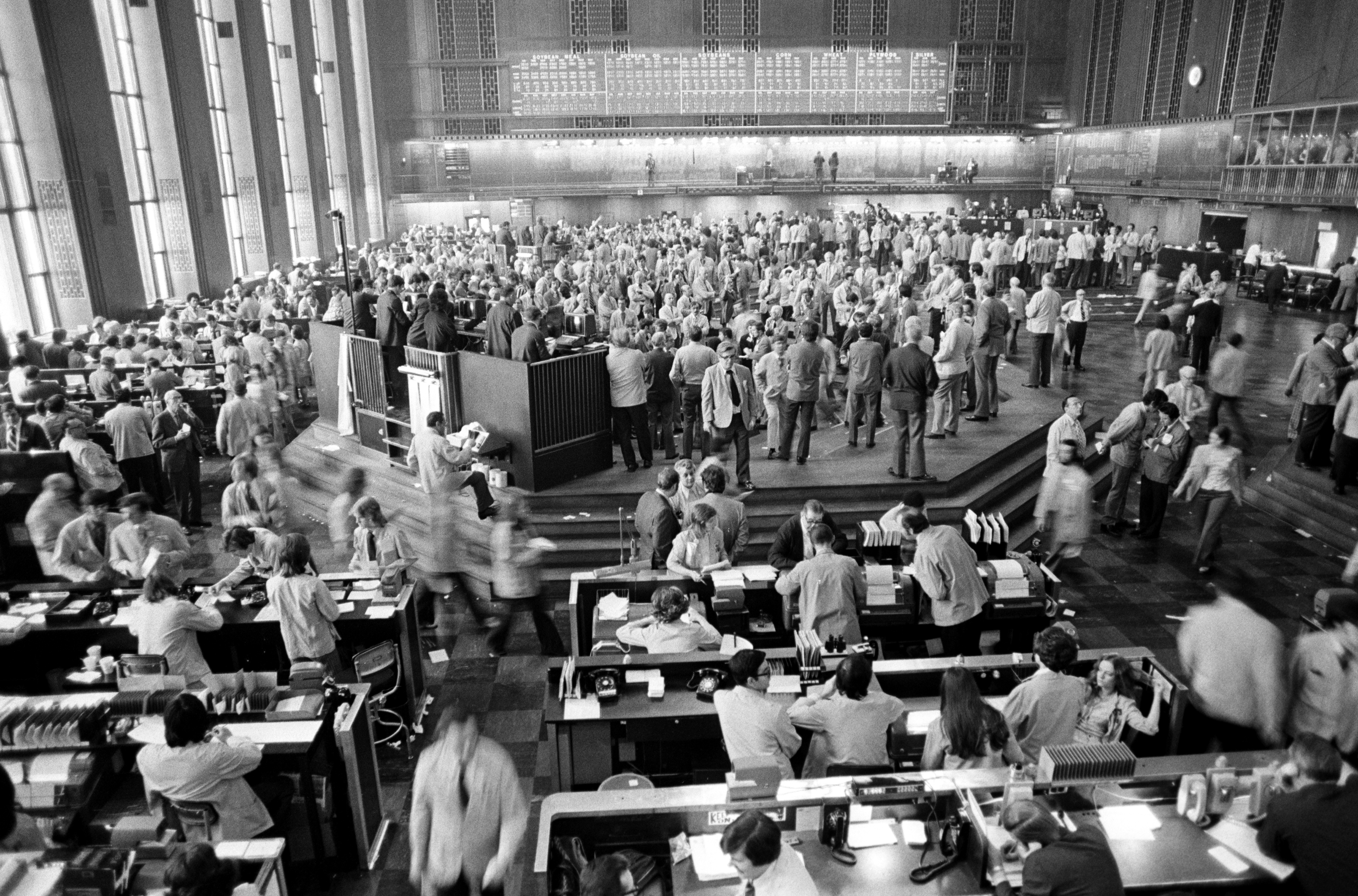 Traders are hard at work at the Chicago Board of Trade in Chicago, Illinois on May 31, 1973. The Chicago Board of Trade (CBOT) was established in 1848 and is the world's oldest futures and options exchange. Photo courtesy of National Archives and Records Administration.